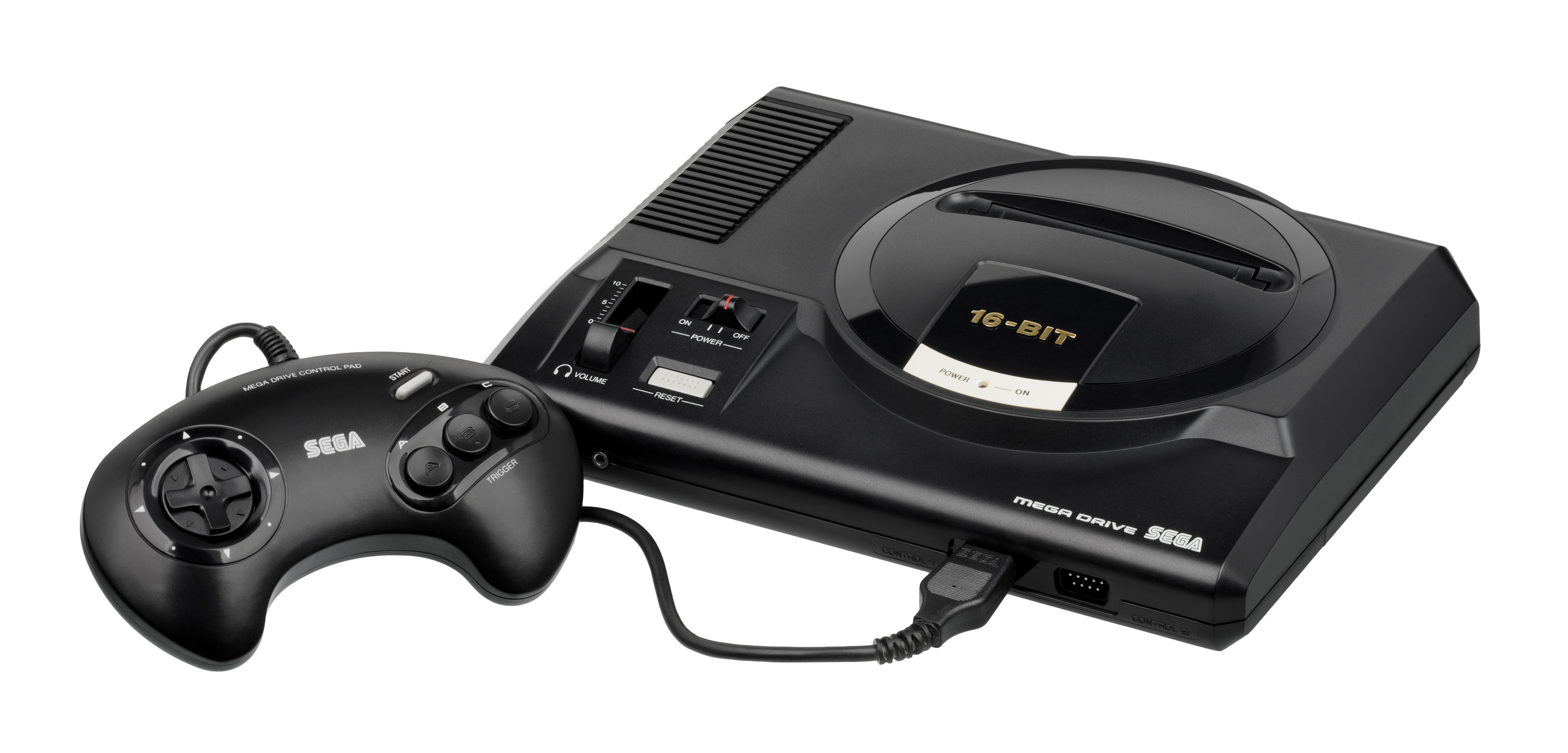 The Mega Drive, a fourth generation video game console by Sega. This is the PAL version of the console, which was first released in 1990 in Europe. The system shares the same name as the original Japanese version, which was renamed the Genesis when it was released in North America in 1989.